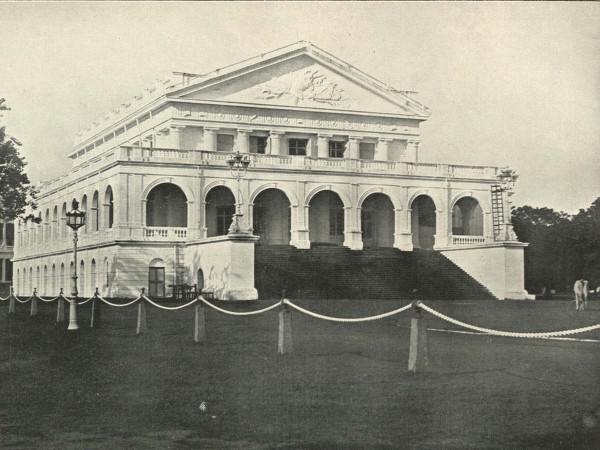 The Hall was built by Lord Clive's Government to commemorate the overthrow of Tippoo Sahib at Seringapatam in 1799. It is the scene of H.E. the Governor's State Balls, Receptions, &c.